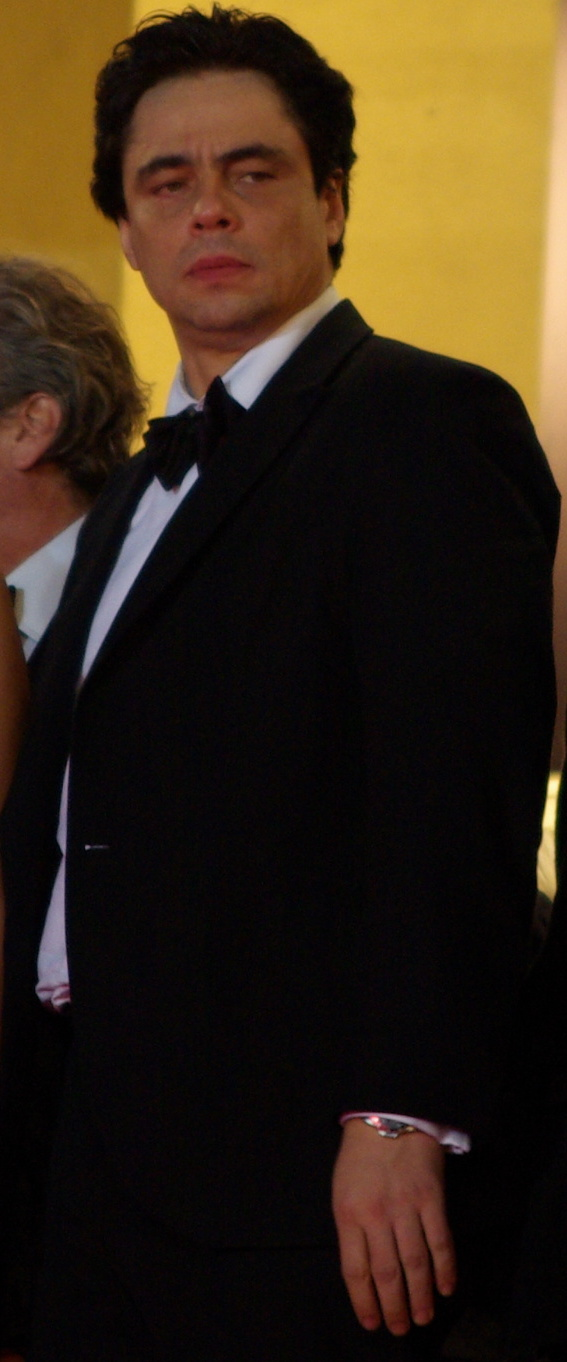 American actor Benicio del Toro at Cannes 2008.